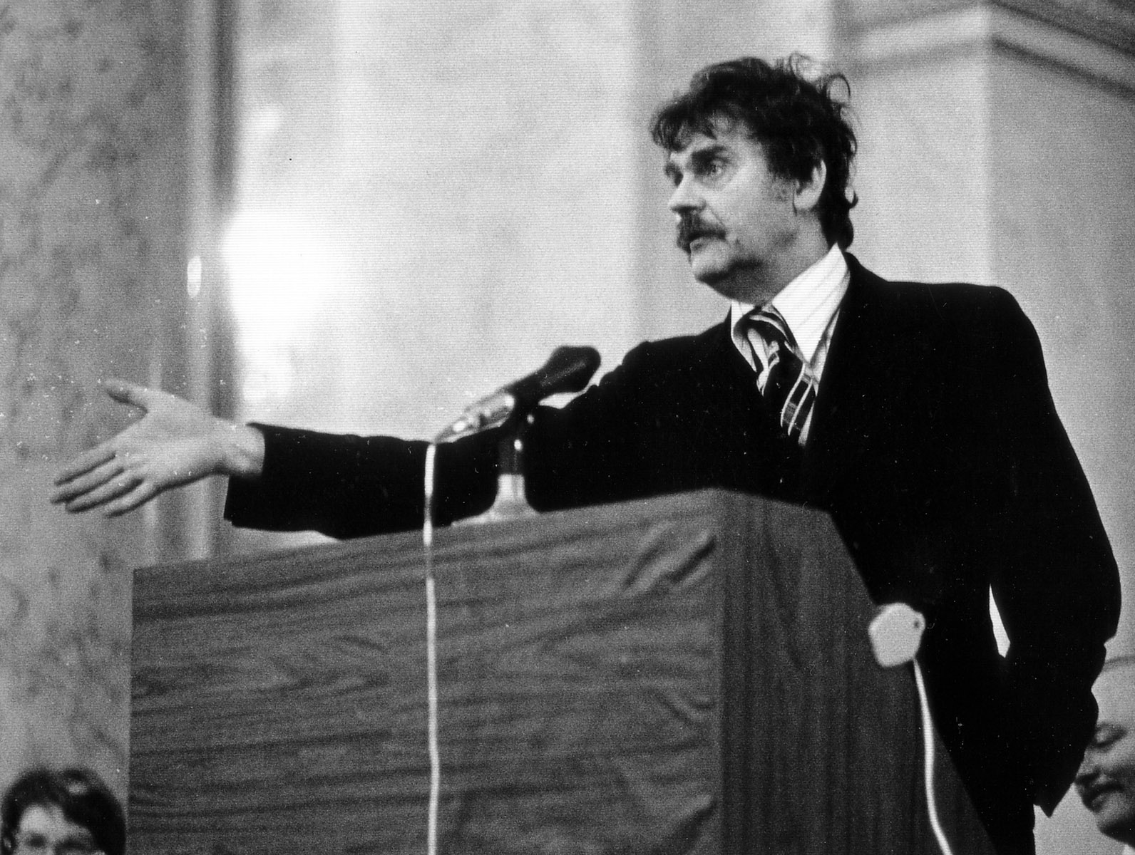 Austrian poet H.C. Artmann on 1974-11-21, during his acceptance speech when getting Grand Austrian State Prize for literature. The poet however never cared very much about such things... (Nikon 85mm lens; available light, no flash). Left bottom corner: Barbara Frischmuth (partially). Right bottom corner: Andreas Okopenko.